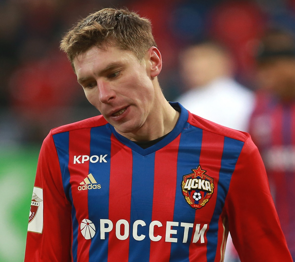 Kirill Nababkin with PFC CSKA Moscow in a game against FC Ural Yekaterinburg.